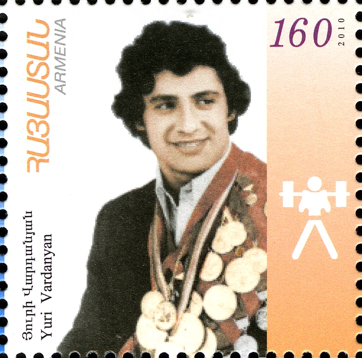 Olympic Champions of Armenia - Yuri Vardanyan